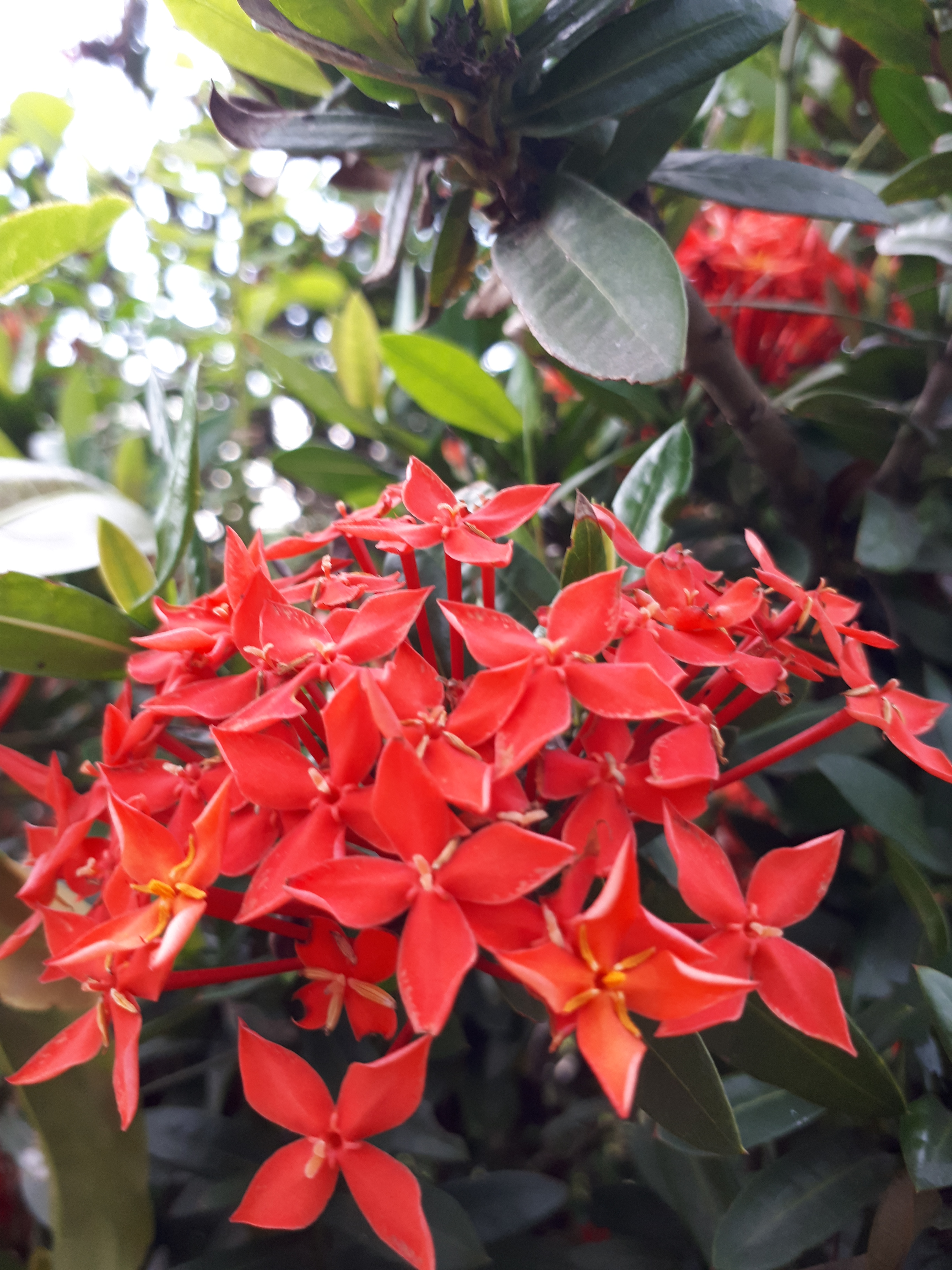 Ixora coccinea in Vietnam